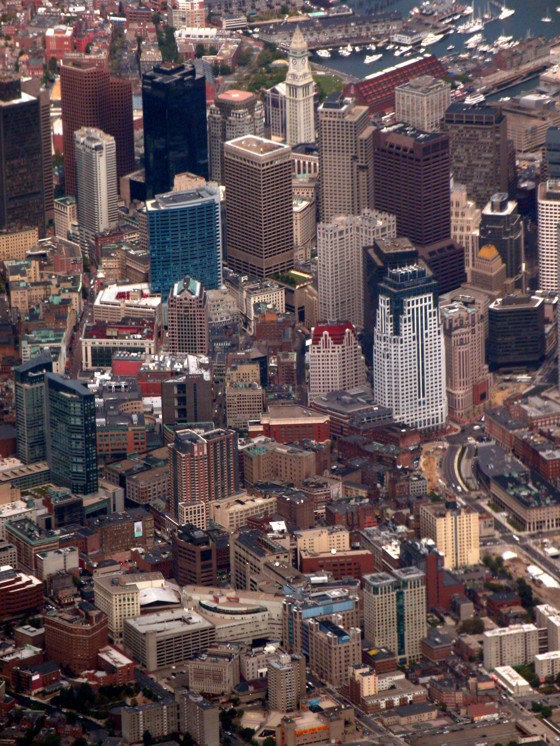 Aerial view of downtown Boston, Massachusetts, USA.